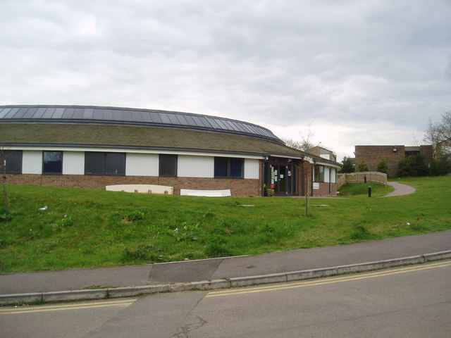 Day nursery, Queen Mary's Hospital, Sidcup, Kent Queen Mary's is a very large hospital, so this purpose-built day nursery is provided where doctors, nurses and other staff can leave babies and small children to be looked after during the day. And that, I believe, concludes the TQ47 hectad, to which I have contributed, by my reckoning, 64 first geographs. No prizes, I know - it's been hard work, but very, very enjoyable! See you soon in TQ46!